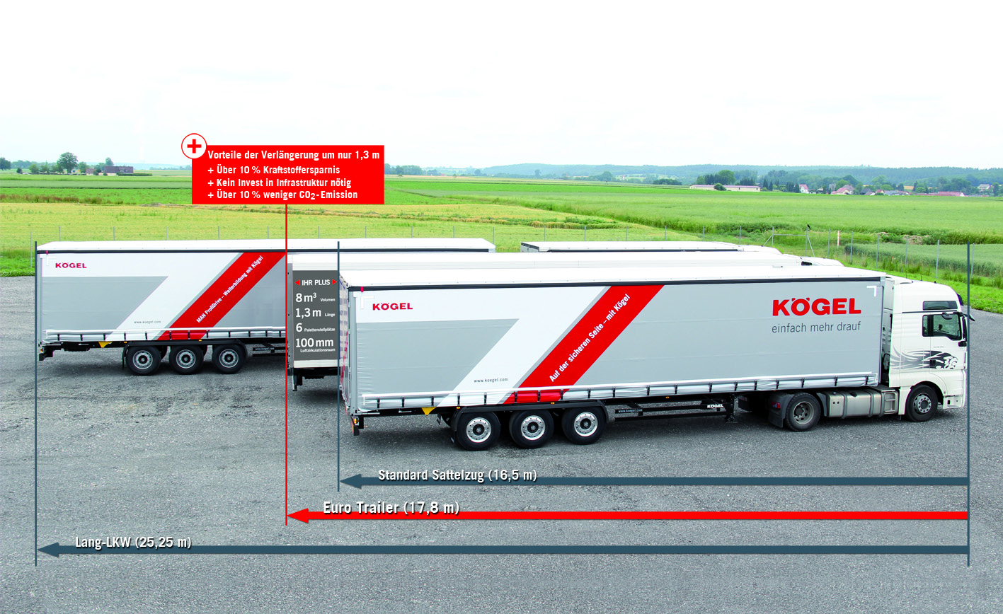 comparison of commercial vehicle lengths